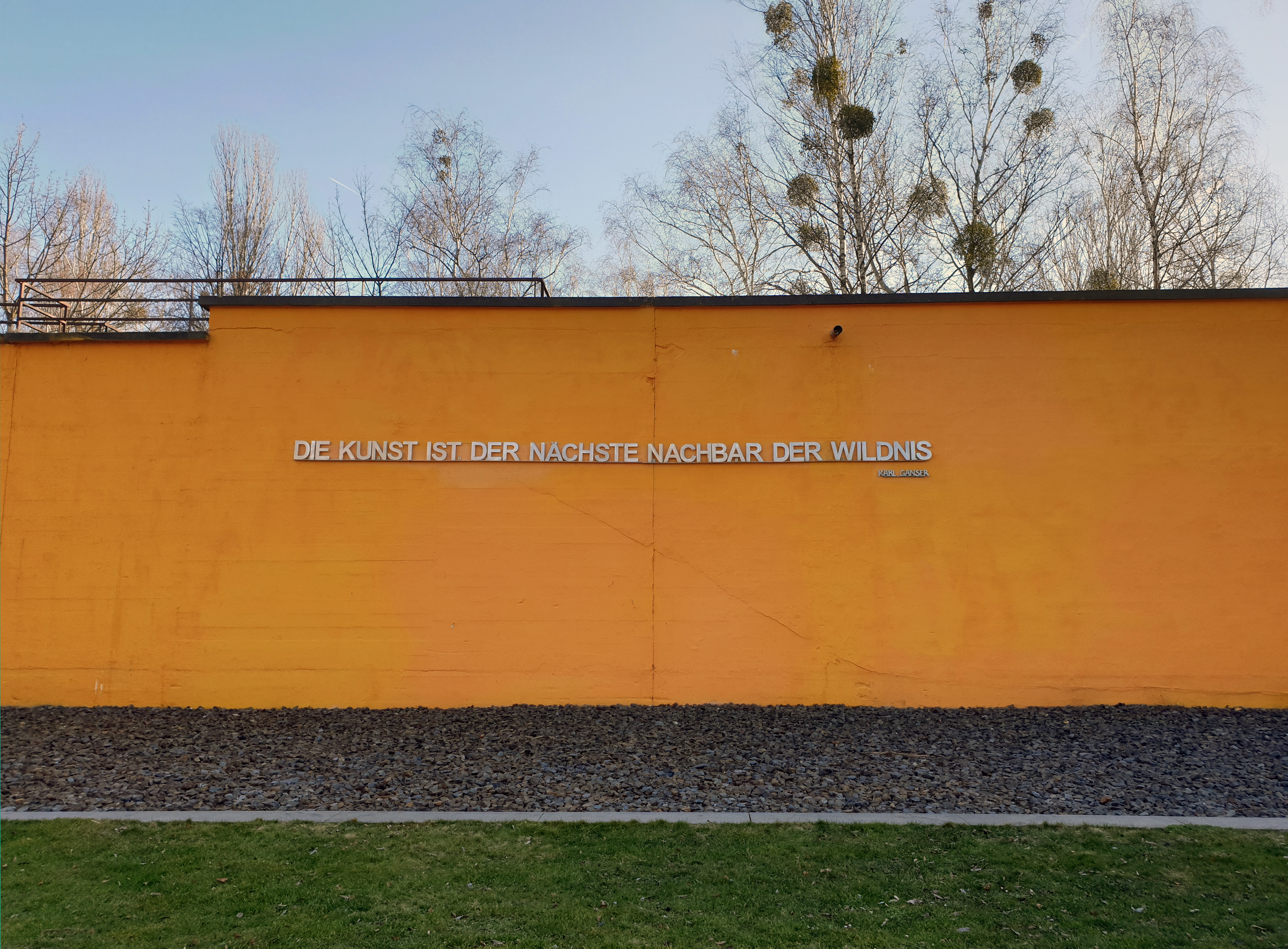 Memorial, Karl Ganser, Natur-Park Südgelände, Berlin-Schöneberg, Germany